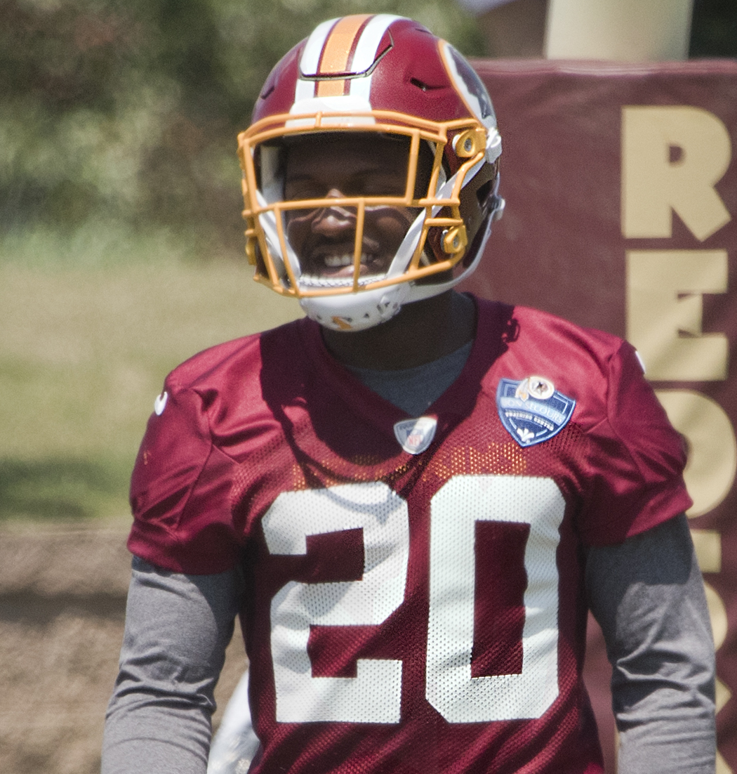 Washington Redskins cornerback, Danny Johnson, at training camp on August 7, 2018